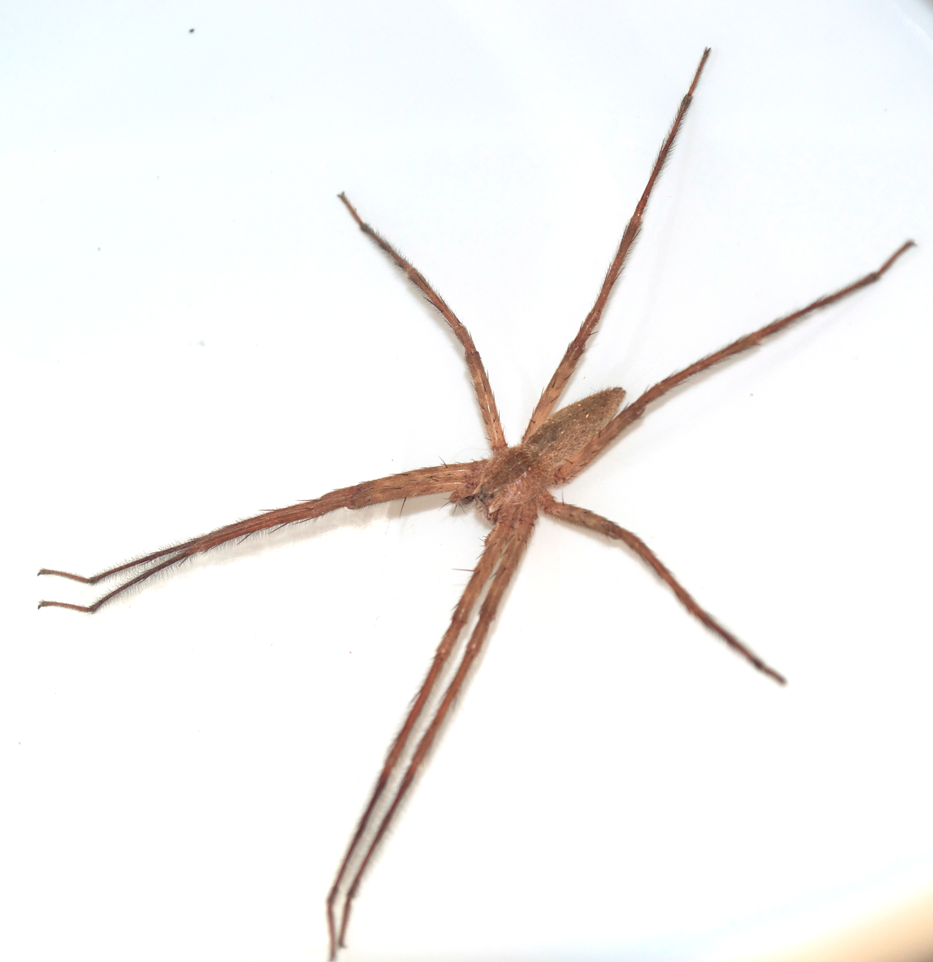 Male Pisaurina sp., probably mira. 12 mm body length. Walked into living room from open front porch. Small ponds nearby. 36° N 80° W